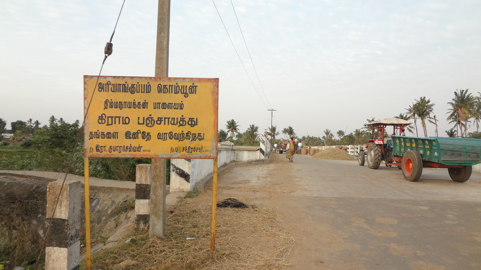 TN Palayam